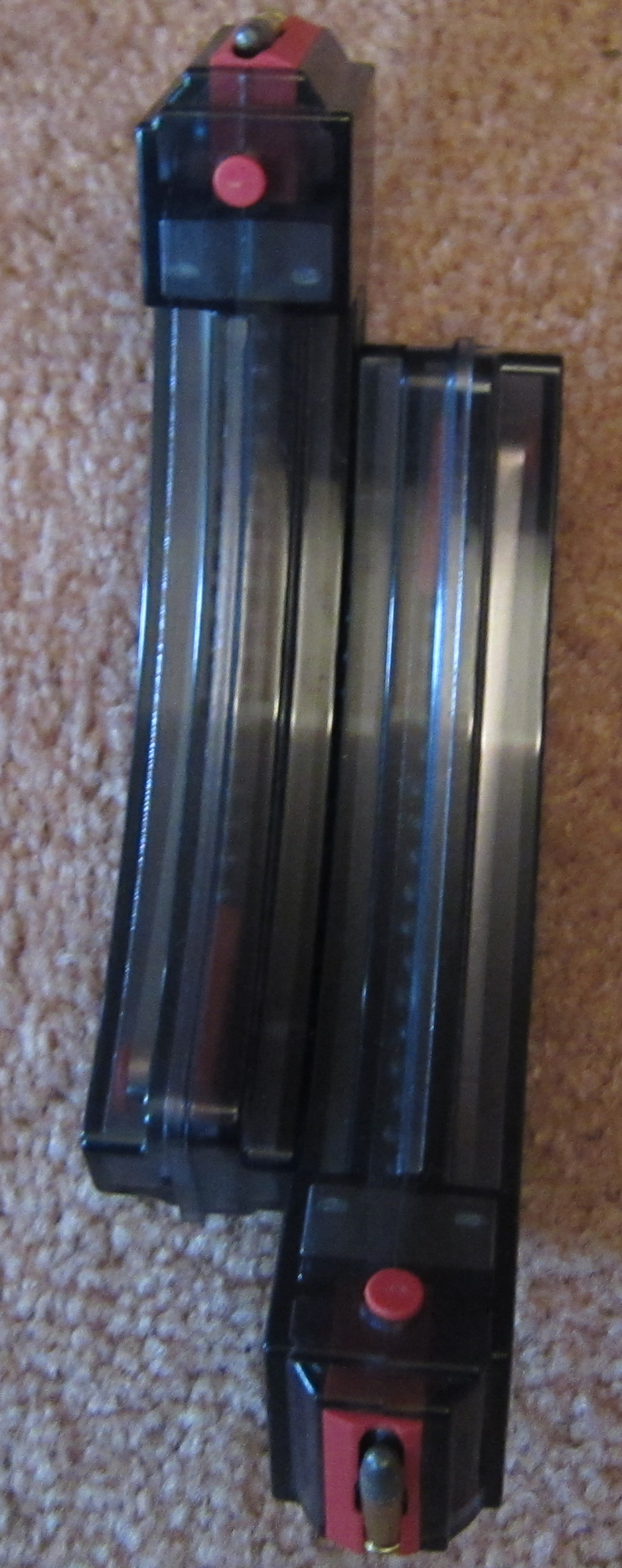 Ruger 10/22 magazines, jungle-clipped together. Ruger 10/22